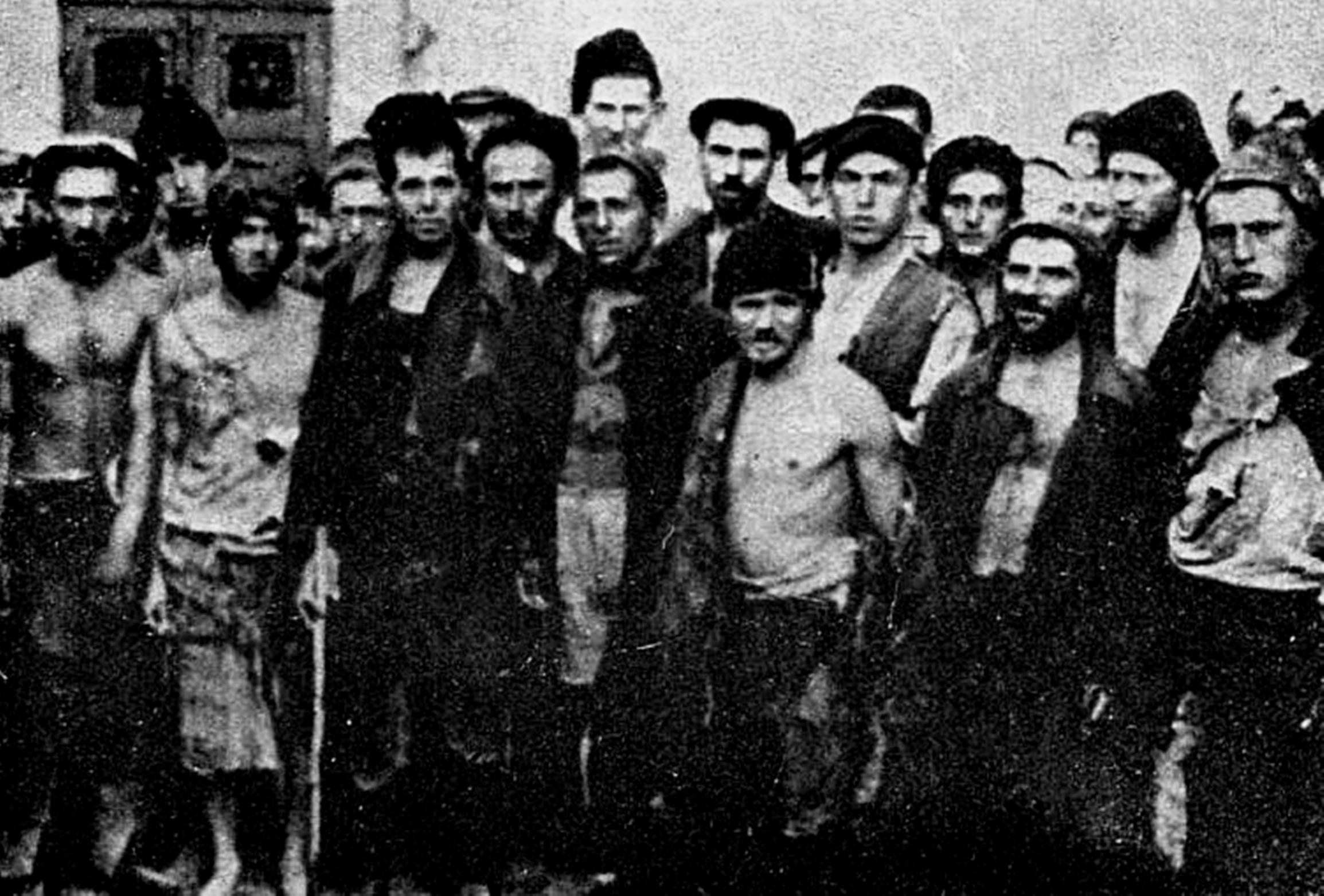 Romanian Jews forcefully conscripted as a labor force behind the Eastern Front, in the Baldovineşti suburb of Brăila. Snapshot taken in spring 1944.